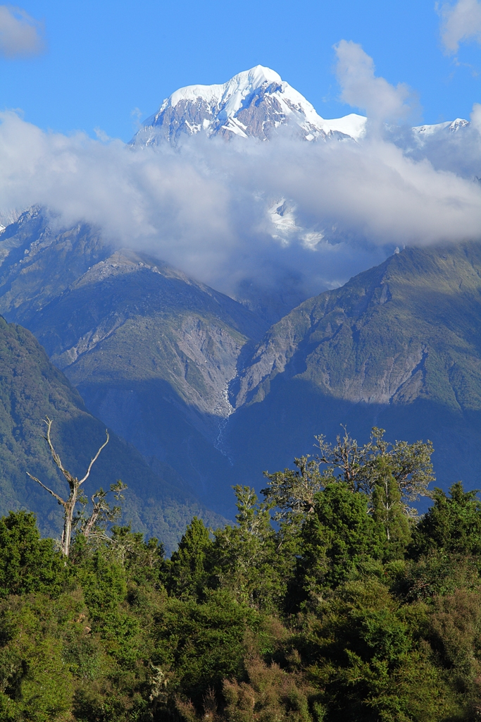 Mount Tasman, New Zealand.